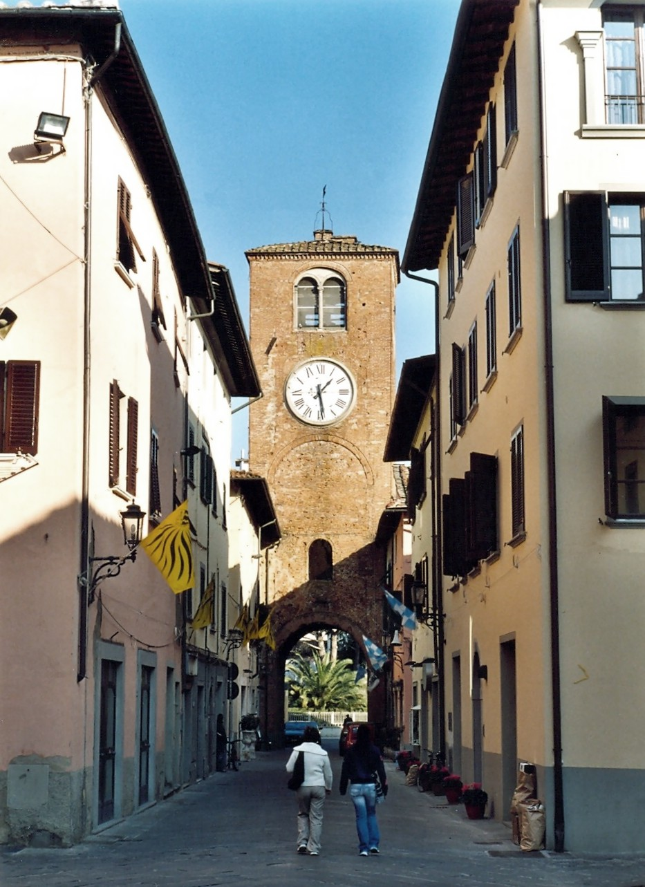 Castelfranco di Sotto, Province Pisa, Tuscany, Italy - Torre medievale con Porta San Pietro